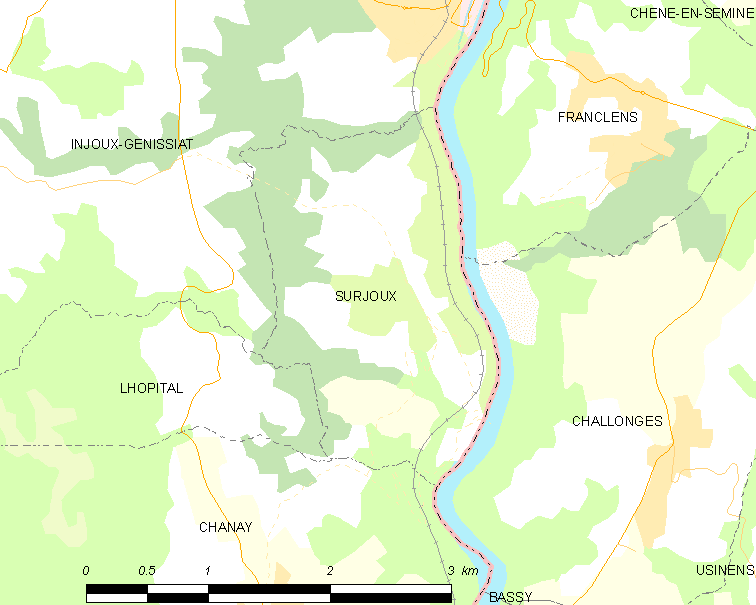 Map of French commune: Surjoux Map commune FR insee code 01413.png